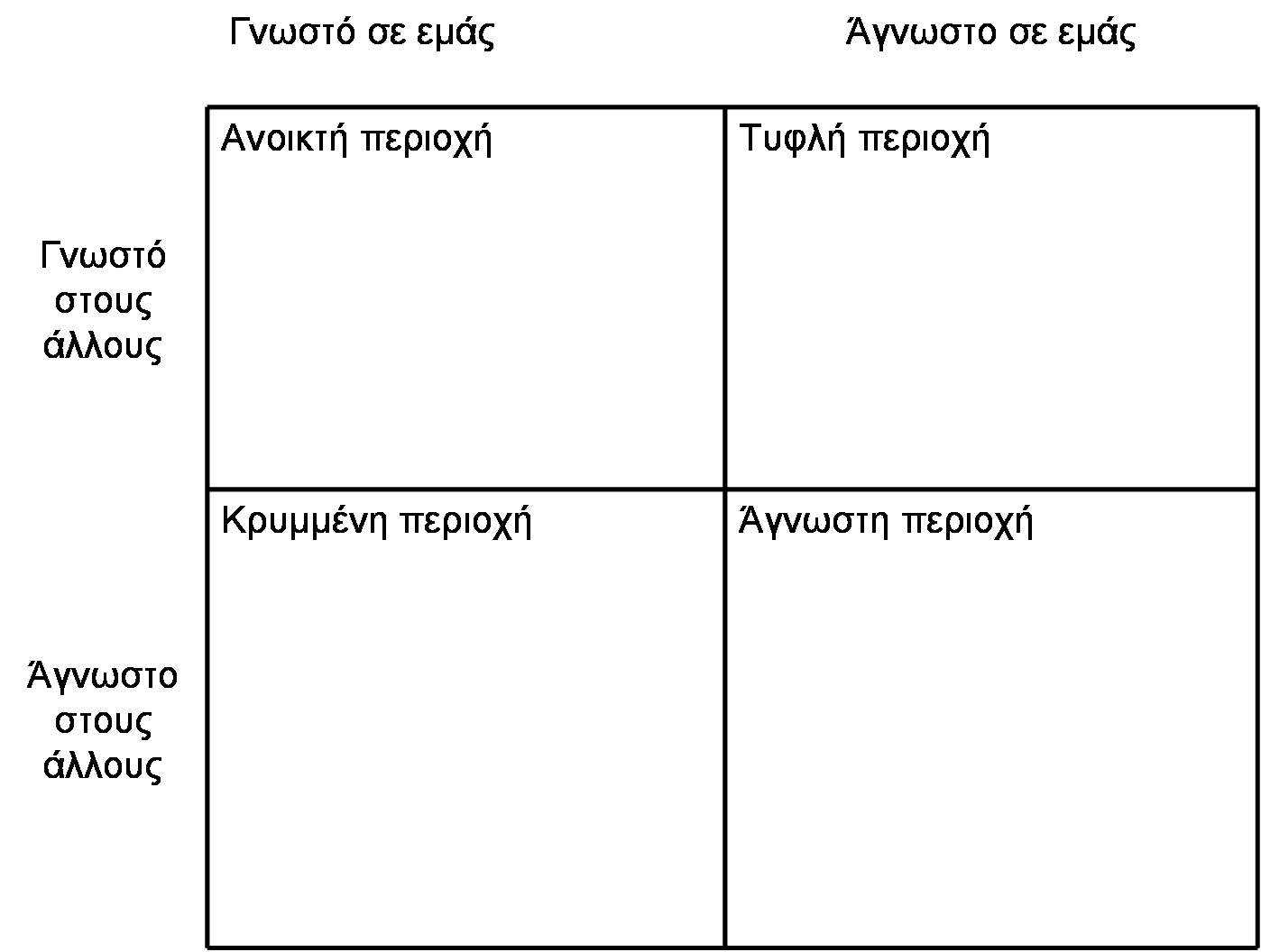 Johari window in Greek, drawn by User:FocalPoint. Jo = Josef Luft Hari = Harry Ingram